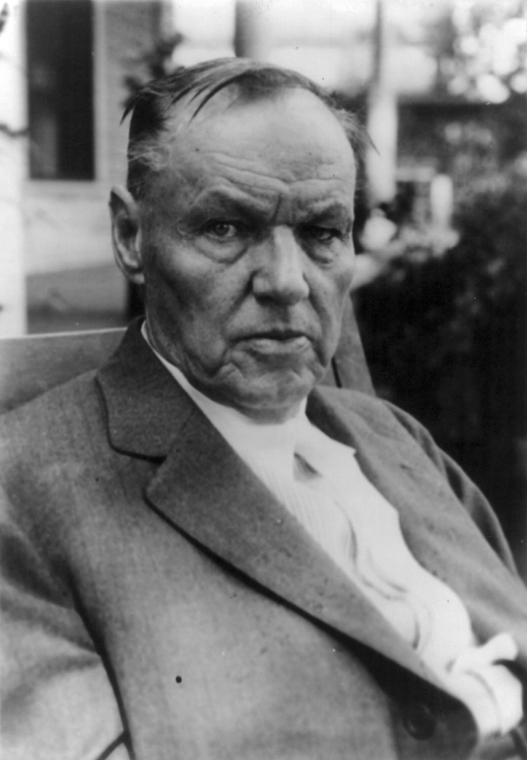 Clarence Darrow, bust portrait, at Dayton, Tennessee, during the Scopes Trial